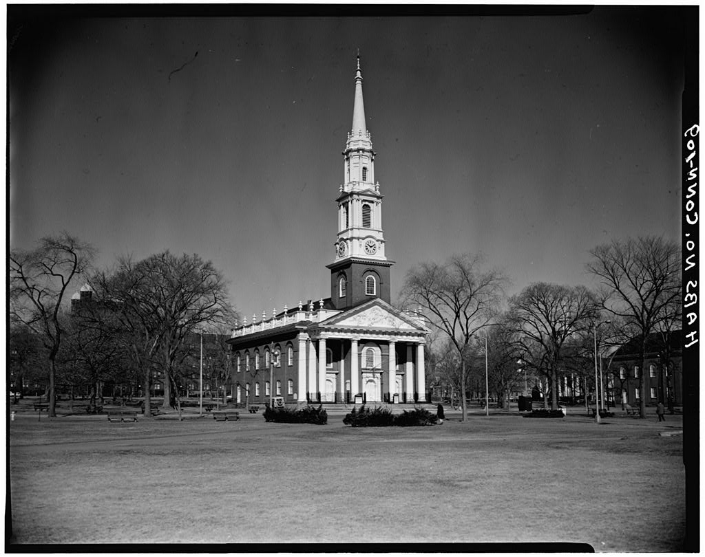 Front facade, facing the New Haven Green, of the Center Church on the Green, also known as First Church of Christ (Congregational), Temple Street, New Haven, New Haven County, Connecticut. Photograph courtesy of the Historic American Buildings Survey, Library of Congress, Washington, D.C.